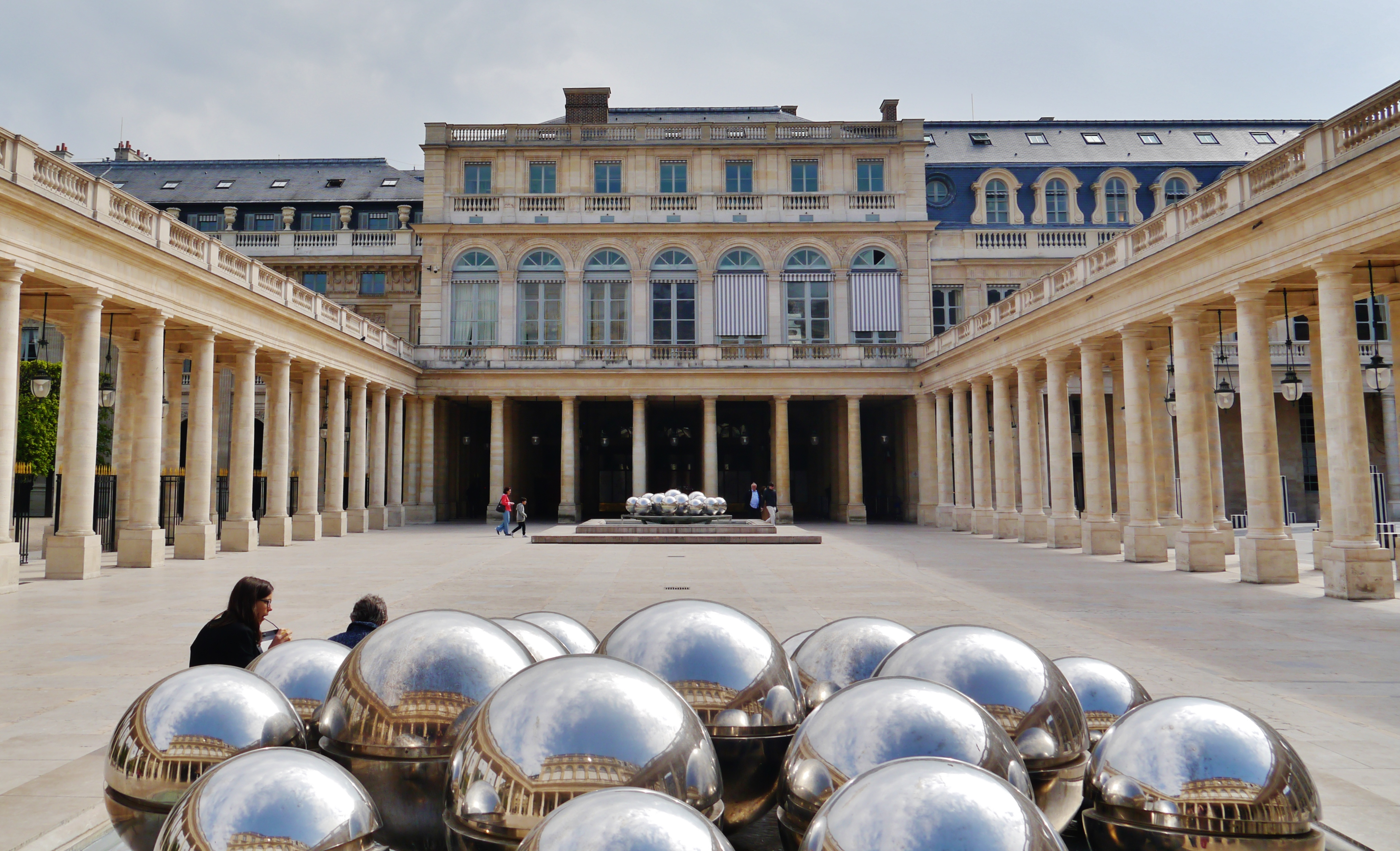 Main Courtyard of the Palais Royal, Paris, Region of Île-de-France, France